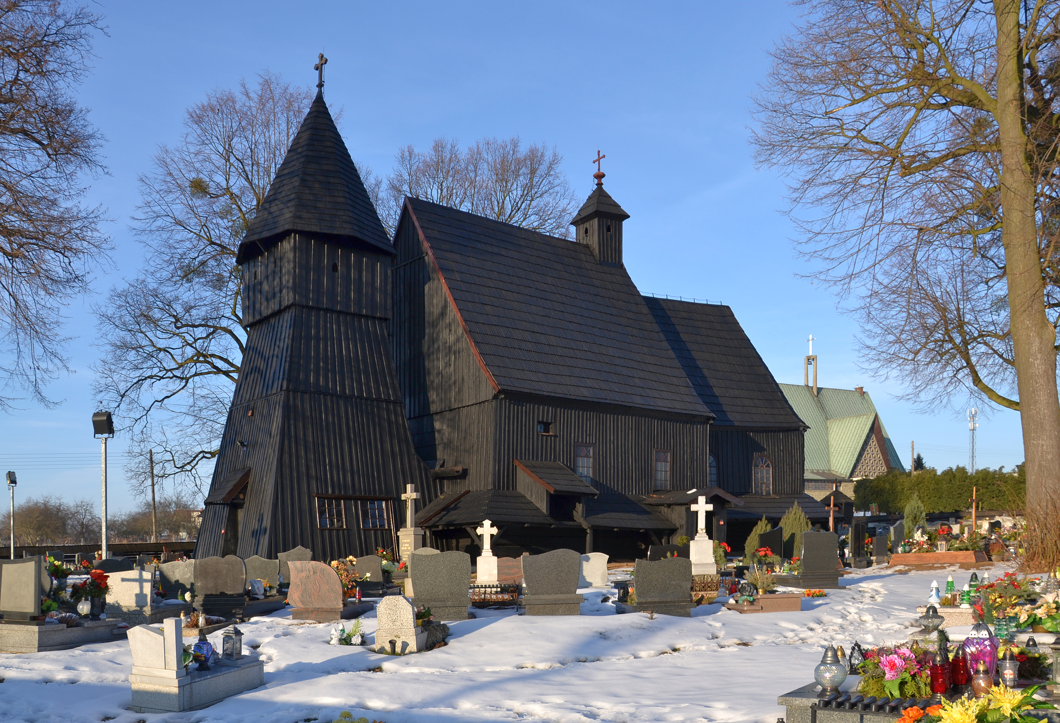 Bojszów (Boitschau, Lärchenhag), Upper Silesia - wooden church